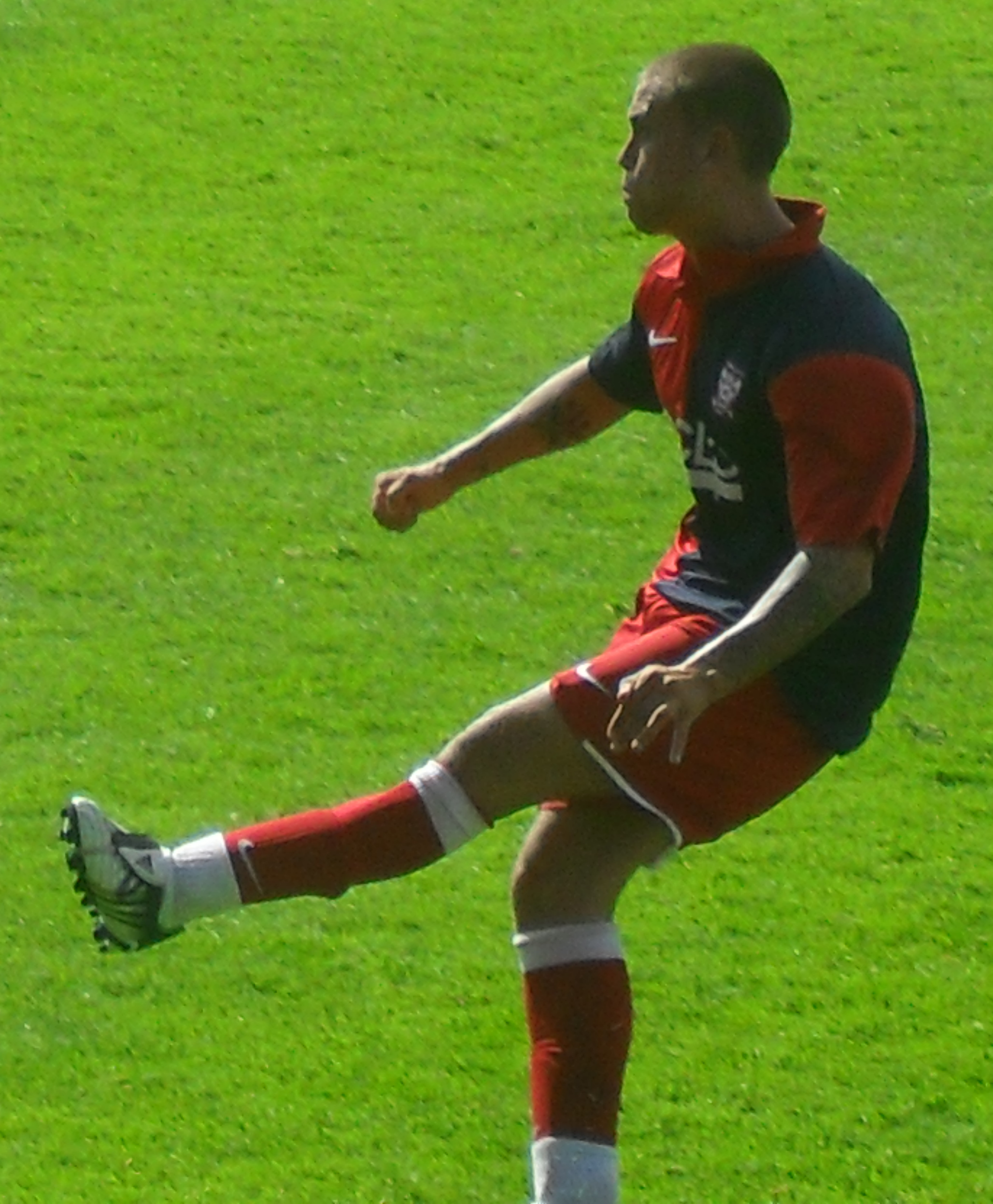 Craig Nelthorpe